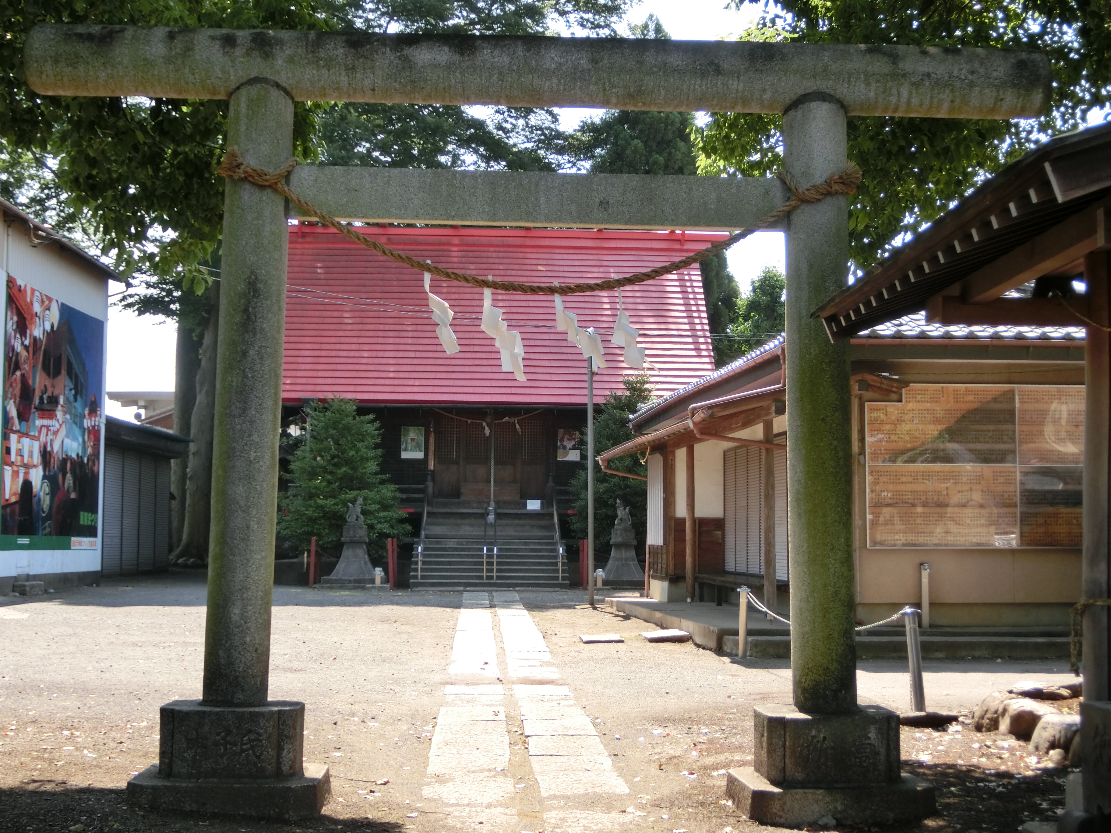 Inari Jinja (Namiyanagi, Hanno)